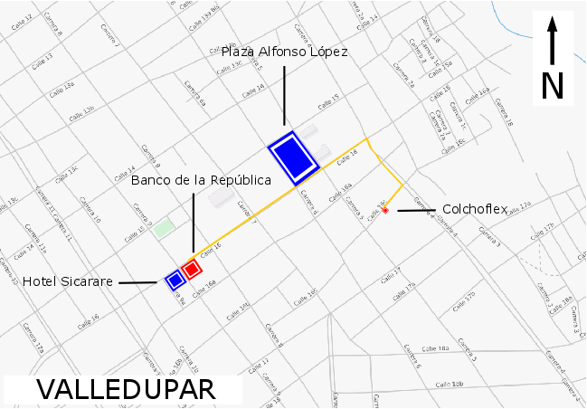 Mapa de Valledupar mostrando sitios claves del asalto al Banco de la República en Valledupar ocurrido el 16 y 17 de octubre de 1994.